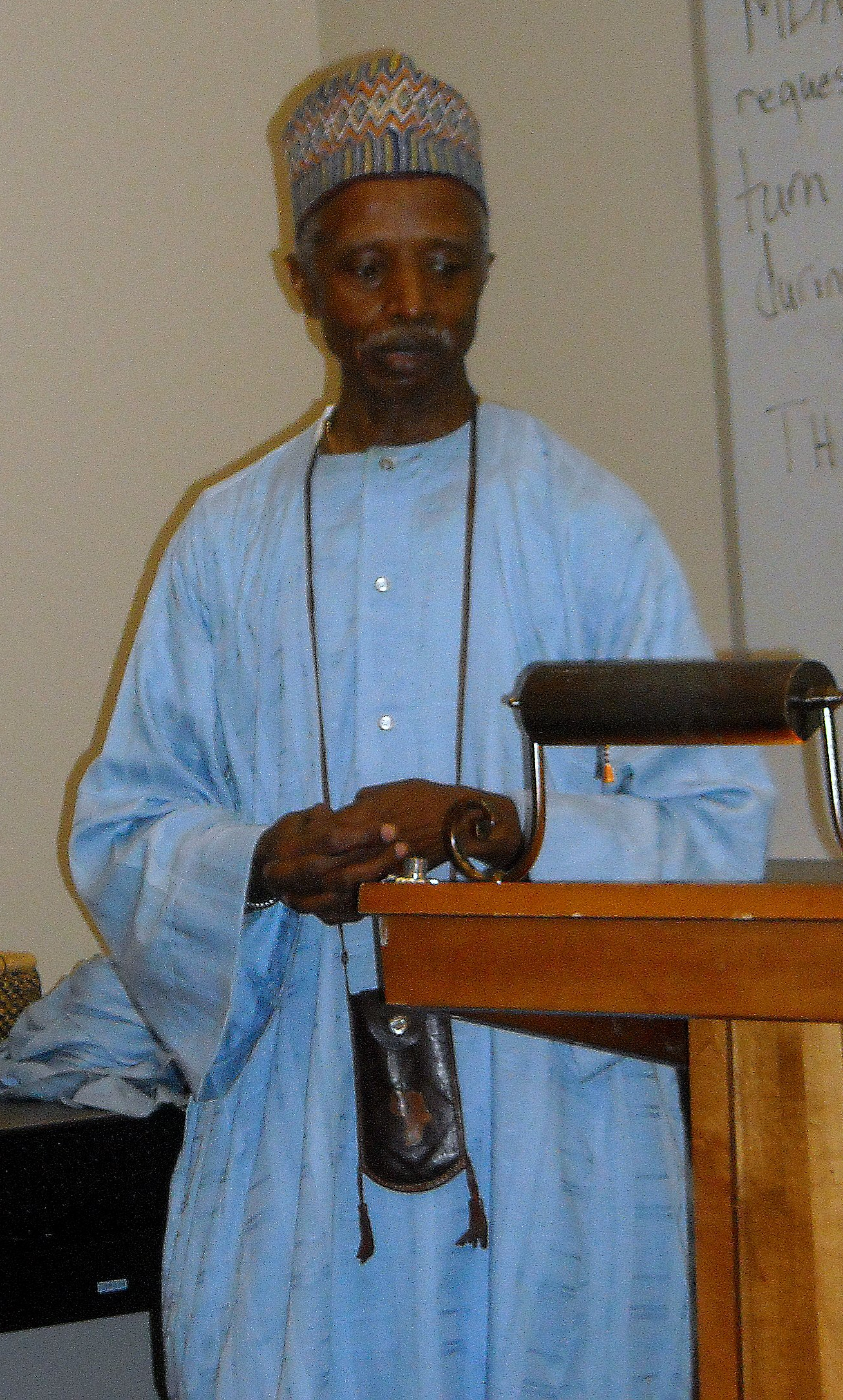 Mississippi State Senator Hillman Terome Frazier giving a presentation on the slave trade in 2009. Photo courtesy of / // /, via Flickr. This file has been extracted from another file: Hillman Terome Frazier 2009.jpg